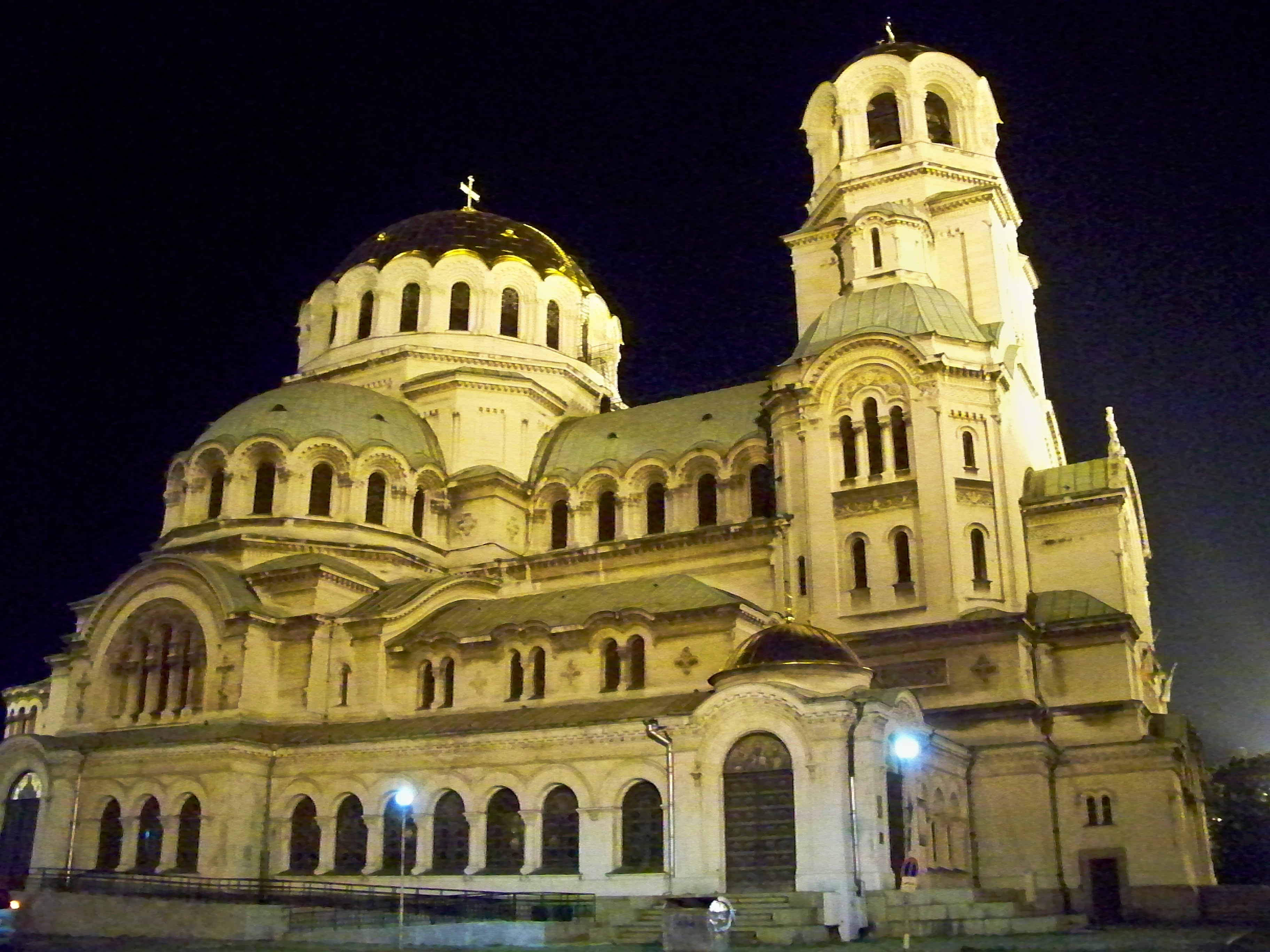 The St. Alexander Nevsky Cathedral is a Bulgarian Orthodox cathedral in Sofia, the capital of Bulgaria.